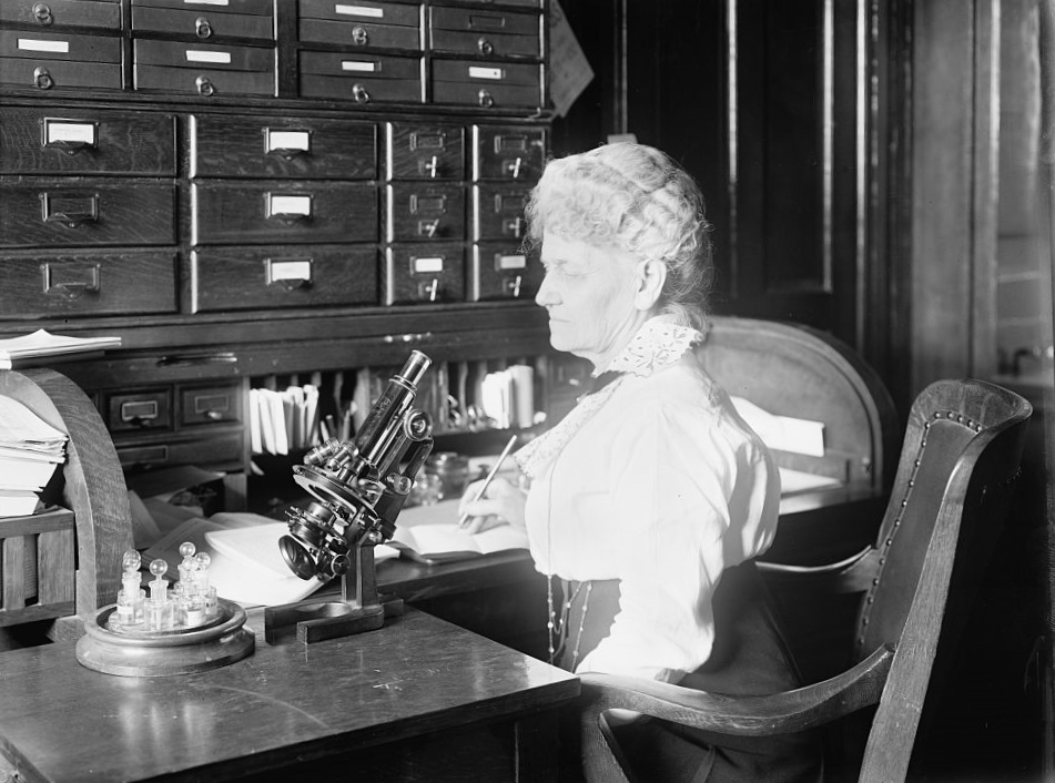 Mrs. F.W. Patterson engaged in scientific research for over 20 years, comparing studies of fungus diseases of plants, the scientific infrastructure of the organisims inducing disease and economic as[.] means of eradication